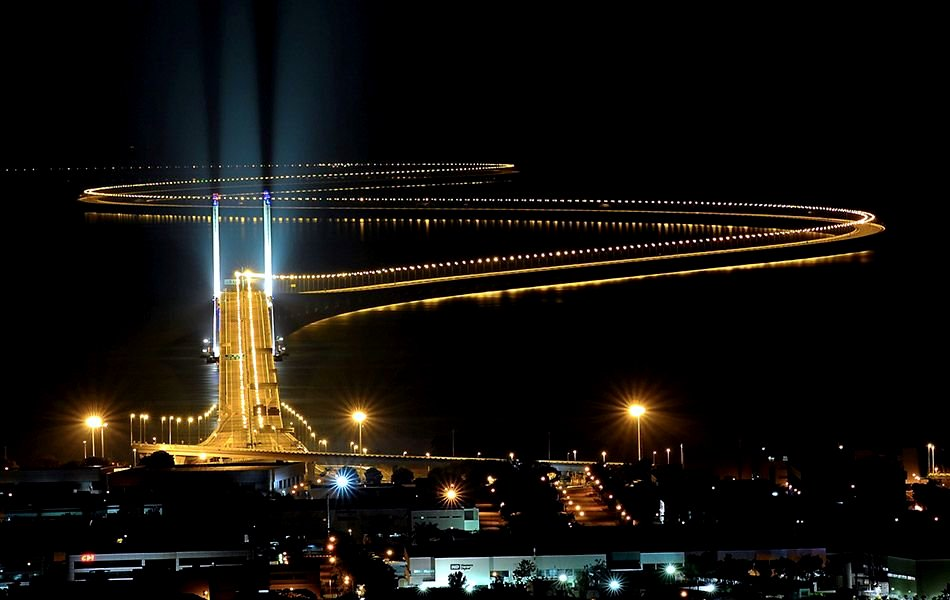 The Penang Island terminus of the Second Penang Bridge at Batu Maung, as seen at night.